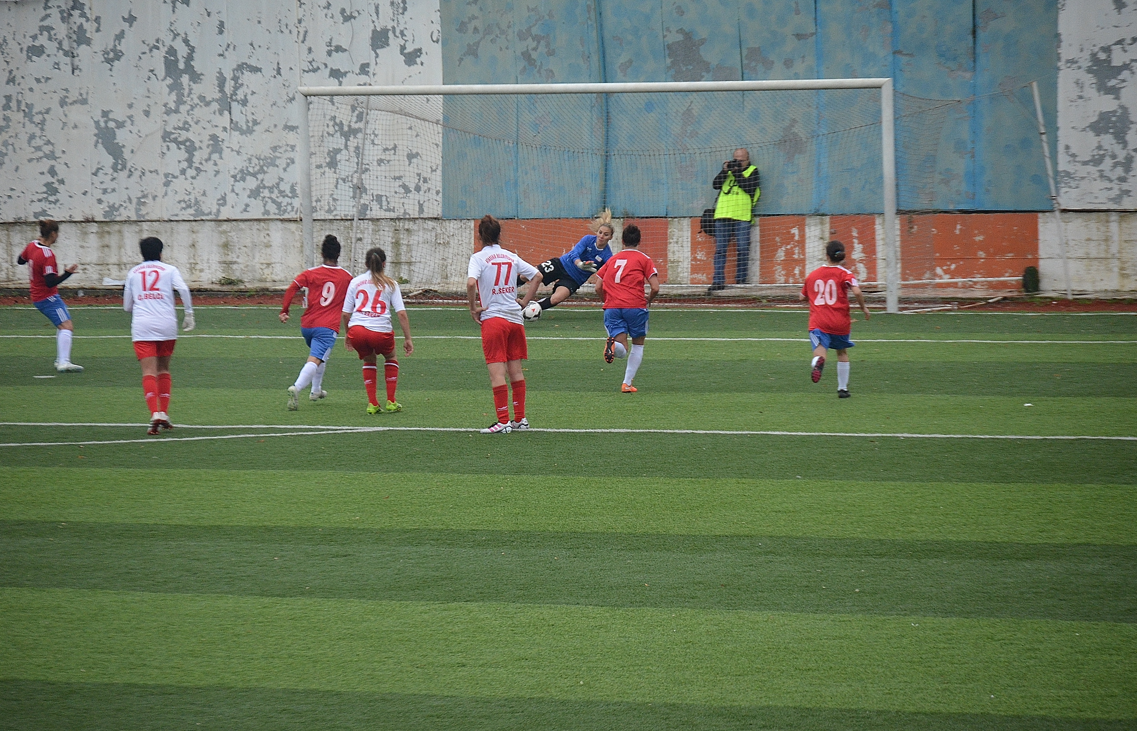 Ataşehir Belediyespor vs Adana İdmanyurduspor match in the 2014-15 season